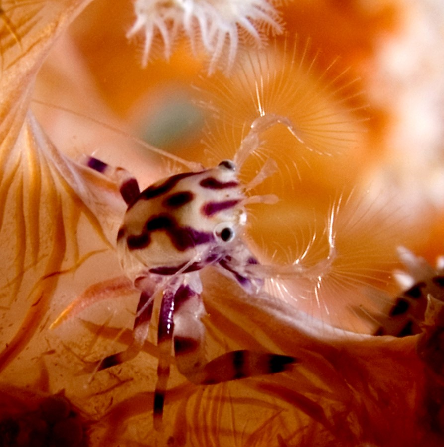 Porcellanella picta (Porcelain crab). This small crab can be seen filter feeding using its front legs which have adapted into fine combs to catch particles and plankton from the water column.